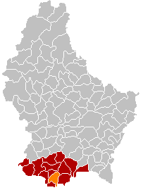 Own edit of Image:Kanton Esch-sur-AlzetteLocatie.png